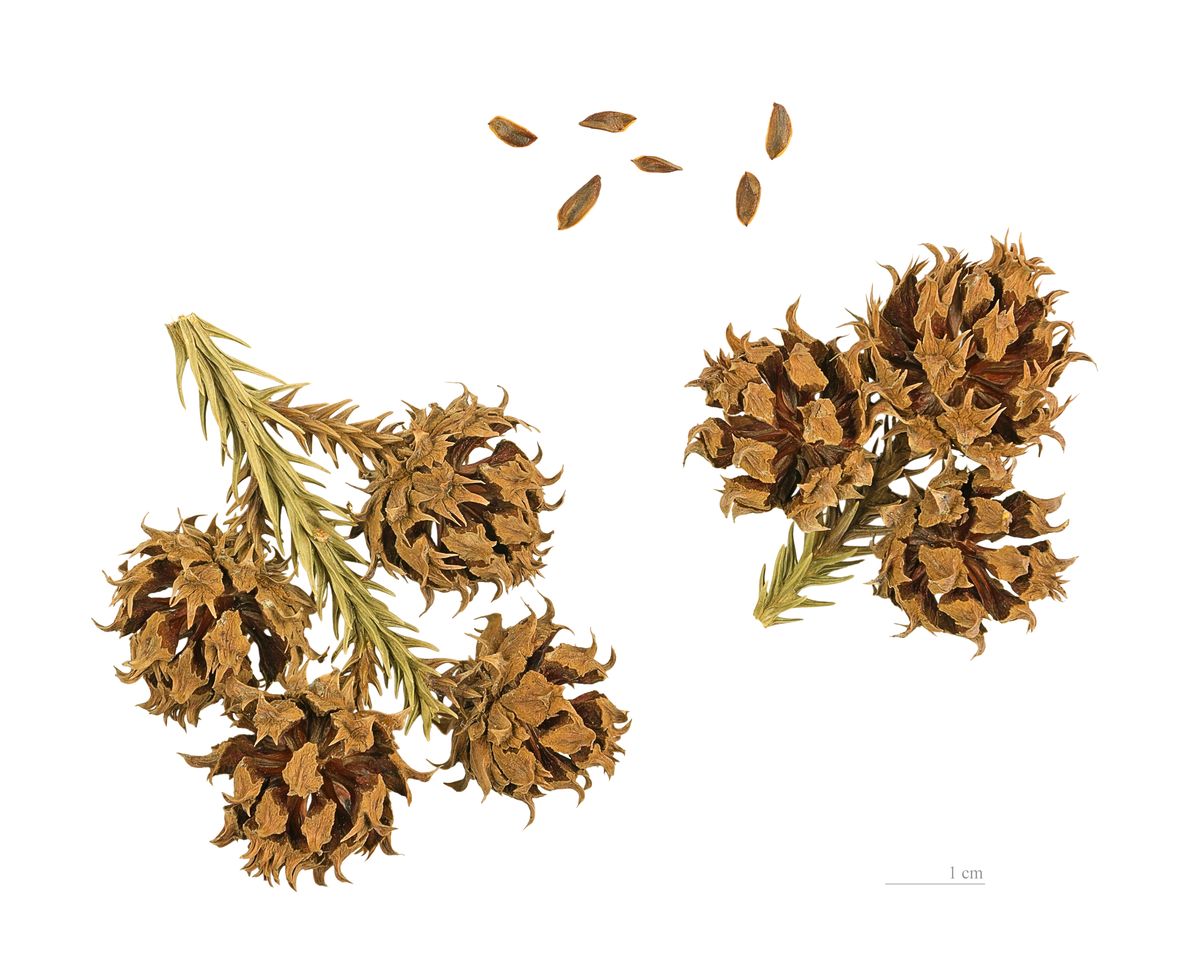 Japanese Cedar. Conifer cone and seeds